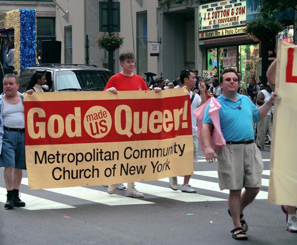 Photo by Nathaniel Paluga